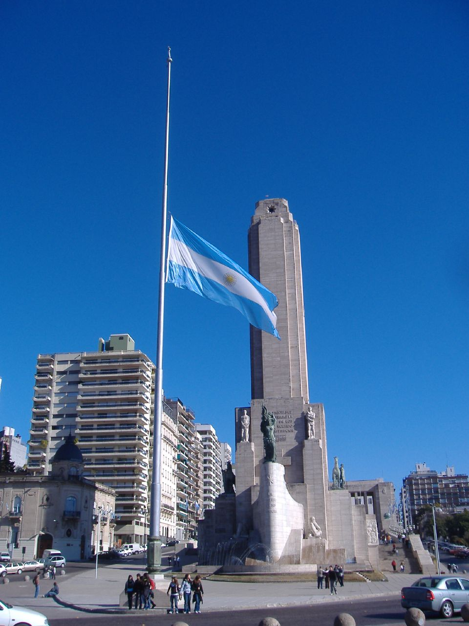 Murió el Negro Fontanarrosa. Las banderas de los mástiles del Monumento y de la Plaza 25 de Mayo están hoy a media asta para recordar a Roberto Fontanarrosa, que murió ayer a los 62 años en Rosario, la ciudad donde nació y trabajó y que nunca dejó. A Fontanarrosa le fue diagnosticada esclerosis lateral amiotrófica en 2003; dejó de dibujar en enero de 2007. The Argentine cartoonist and writer Roberto Fontanarrosa died on 19 July 2007, at the age of 62. He'd been diagnosed with ALS in 2003, and had to stop drawing in January 2007. Fontanarrosa was an icon of Rosario, the city where he was born and remained until his death. In his honour, the flags located before the National Flag Memorial and in the nearby Plaza 25 de Mayo (at the historical center of the city) were raised at half mast today.